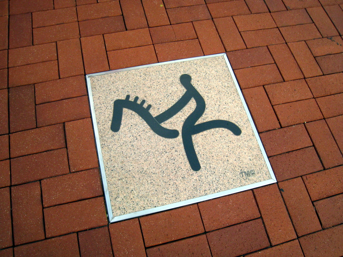 Yuen Wo Road Specfic Tiles 源禾路的行人路段奧馬圖標設計的地磚